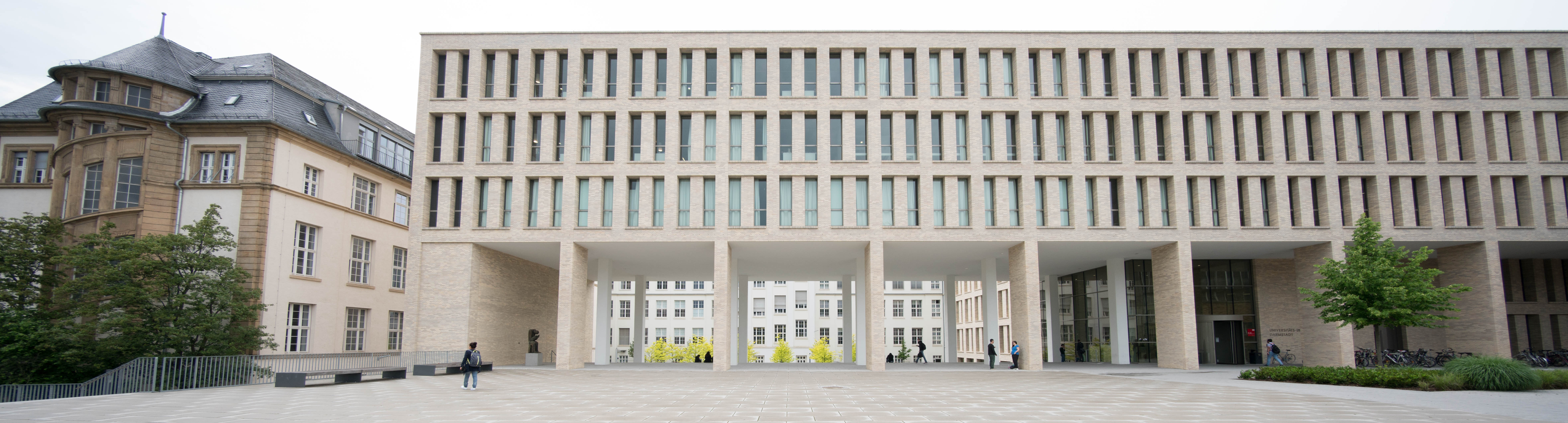 Library and the Old Main Building in the Stadmitte Campus